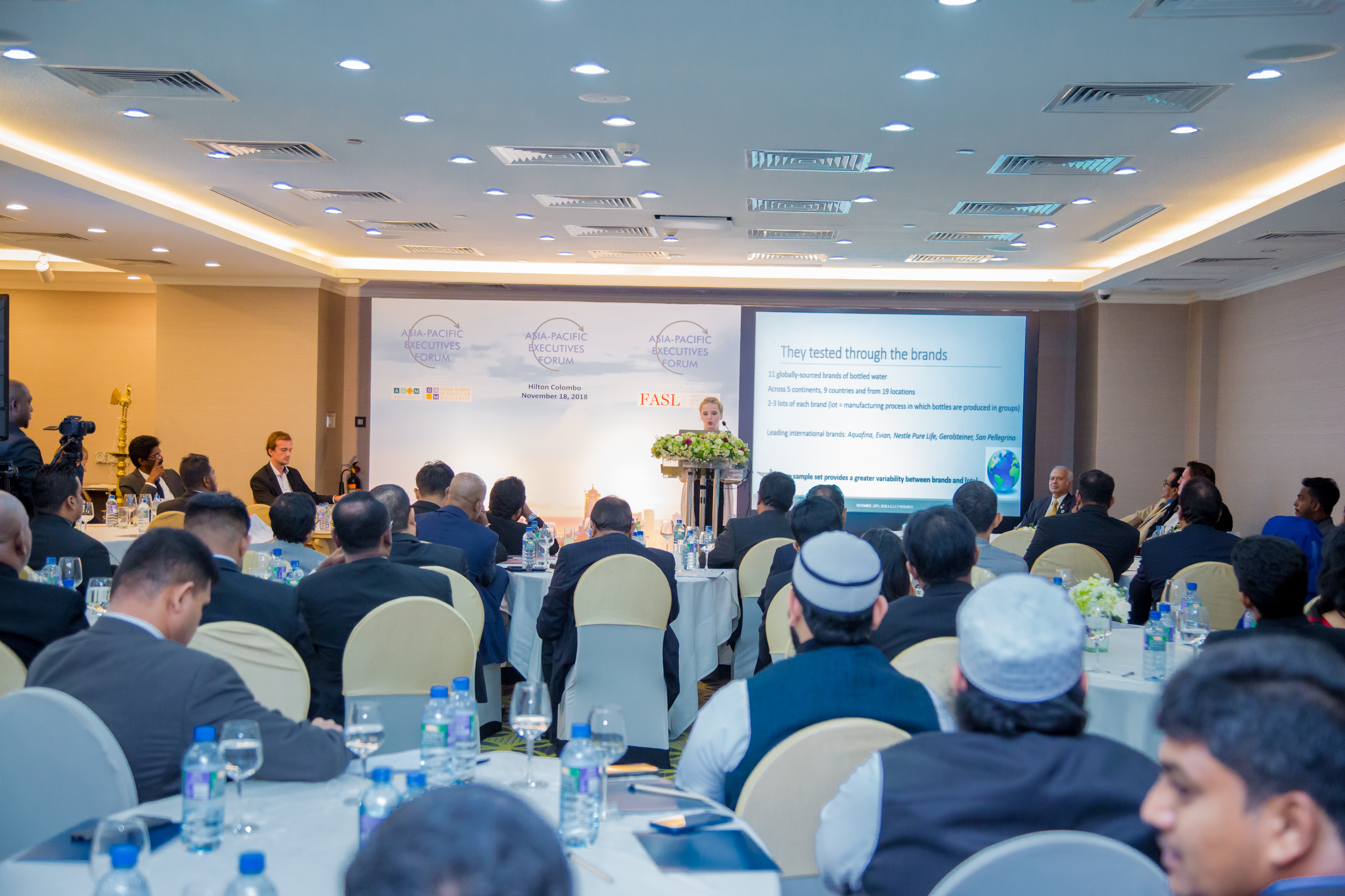 Elina Gansweith, a German university internship student attached to AGSEP is addressing on ‘Micro Plastic in Bottled Drinking Water’ at the "Asia-Pacific Executives Forum", held at Hilton Colombo on November 18, 2018.(Ref: Micro plastic in bottled drinking water)